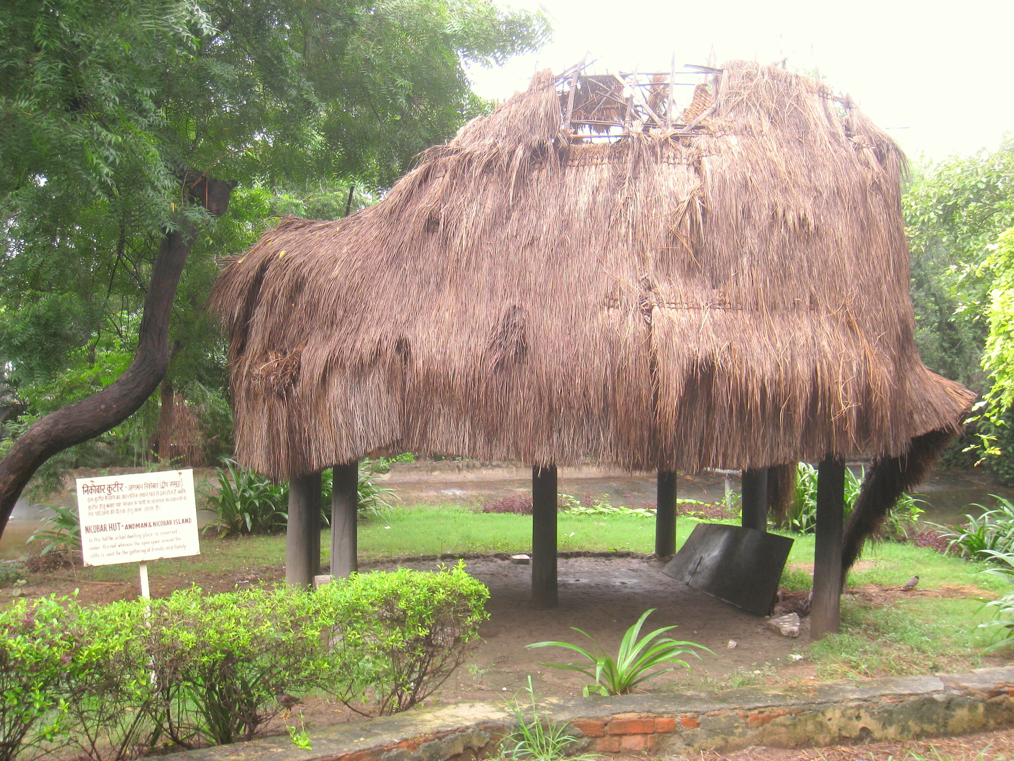 Village complex in Crafts Museum, New Delhi, India.